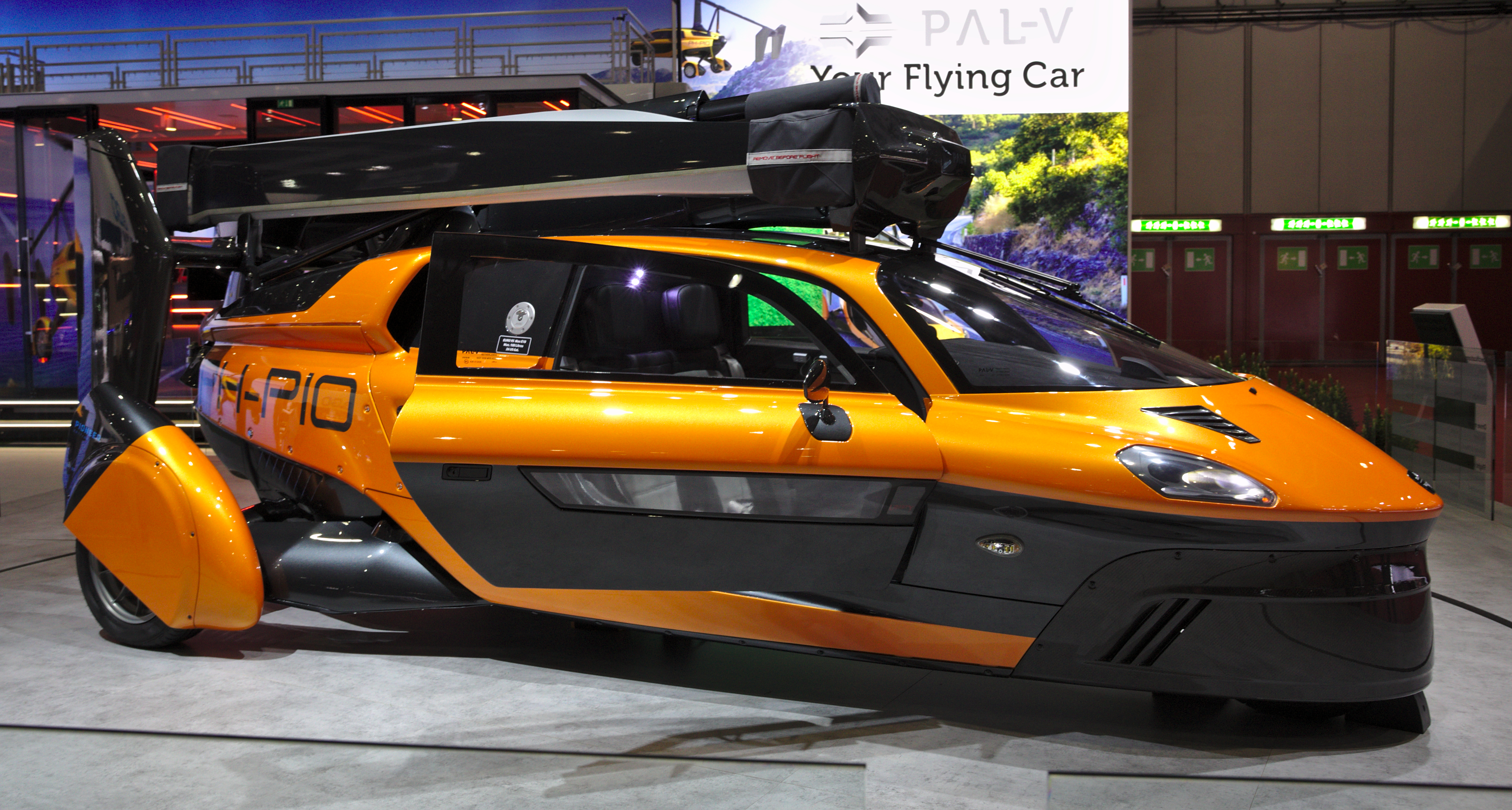 PAL-V at Geneva Motor Show 2019